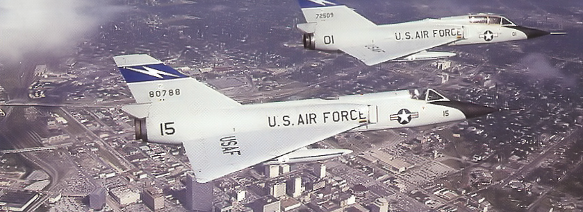 Two U.S. Air Force Convair F-106 Delta Dart fighters from the 125th Fighter-Interceptor Wing, Florida Air National Guard, in flight in the 1970s/1980s. The aircraft nearer to the camera is F-106A-100-CO (s/n 58-0788, c/n 8-24-119) which was retired to the AMARC on 24 May 1990 as FN0196. It was converted to an QF-106 (AD268) on 23 June 1994. Written off after being hit by ground fire on 7 October 1997, it was purchased by a private individual in April 2000 and moved to El Paso, Texas (USA) for restoration. The F-106B-31-CO (s/n 57-2509, c/n 8-27-03) was retired to the AMARC as FN0110 on 22 January 1987. It was converted to an QF-106 (AD150) and shot down by a Patriot missile on 24 September 1992.